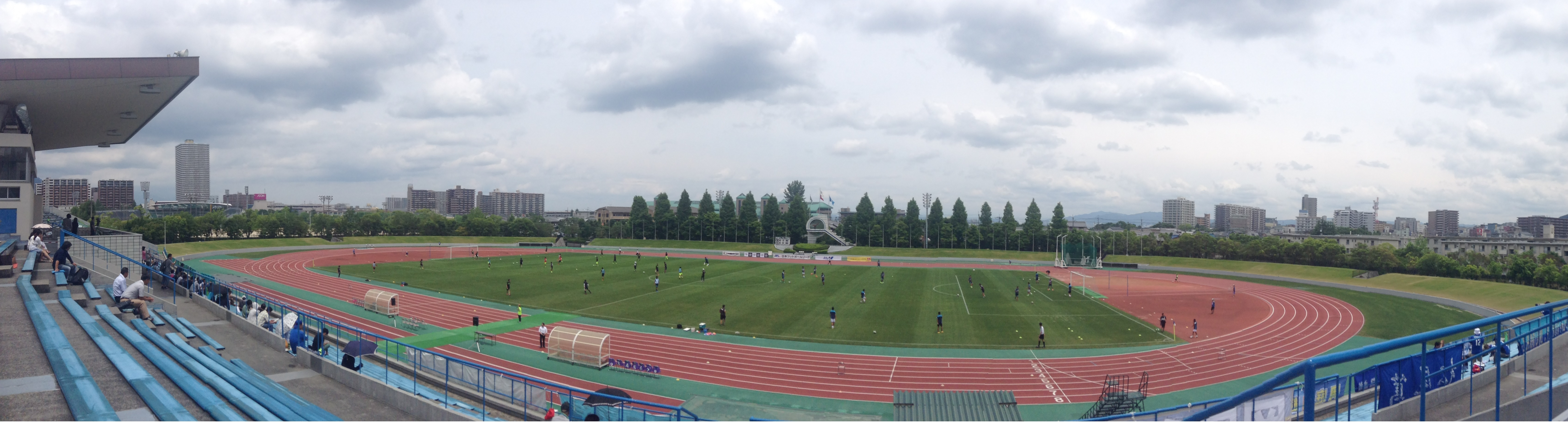 The panoramic photograph of Ojiyama Athletic Stadium.17th Japan Football League , MIO Biwako Shiga vs Azul Claro Numazu , June 7, 2015（After correction）